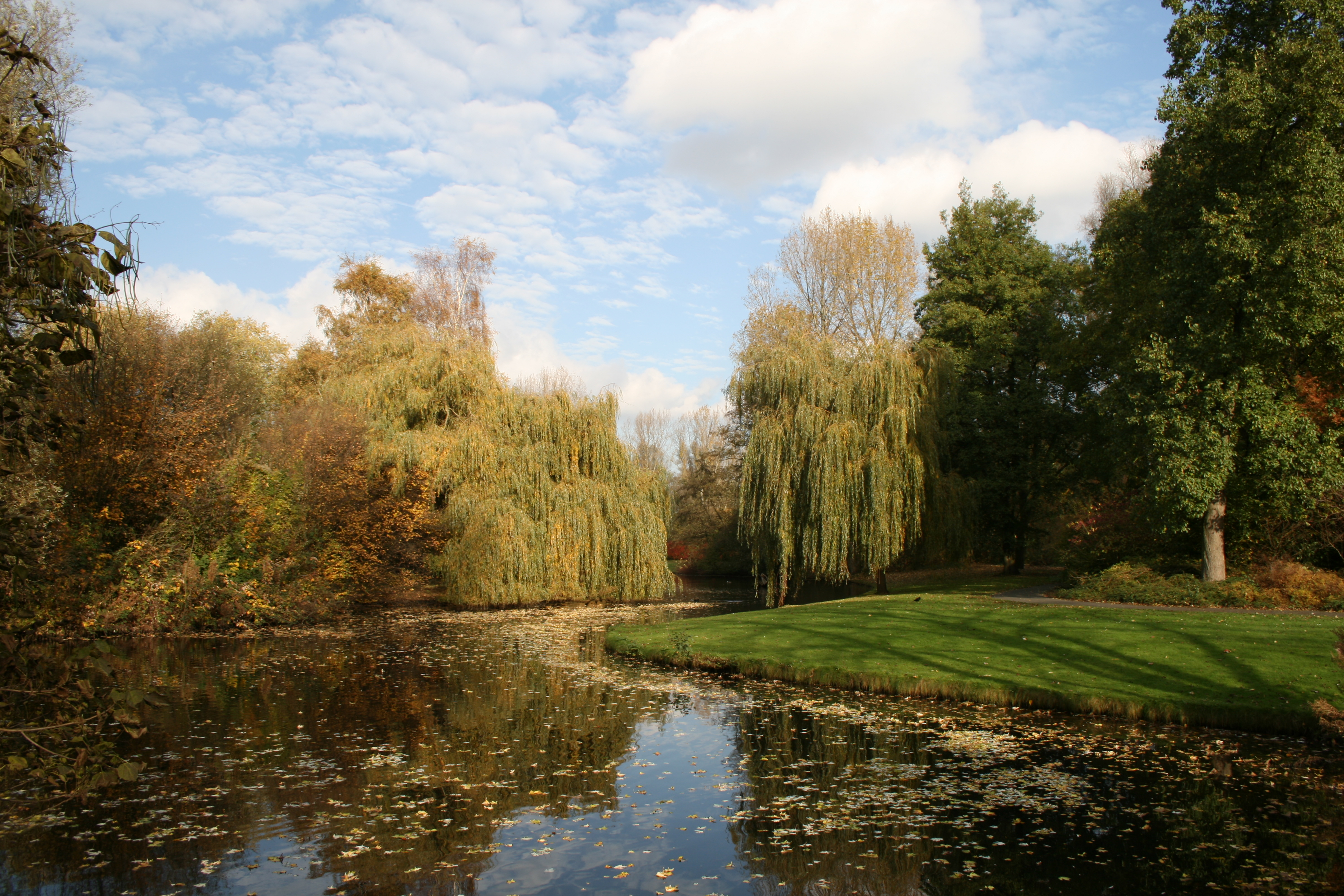 The Beatrixpark is a park in South Amsterdam.